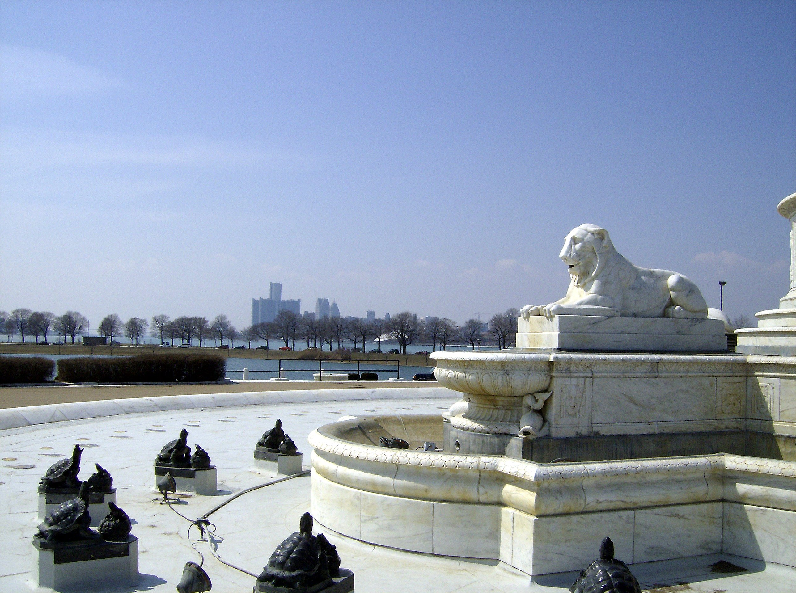 The James Scott Memorial Fountain in Belle Isle Park, Detroit, Michigan, United States, drained dry.